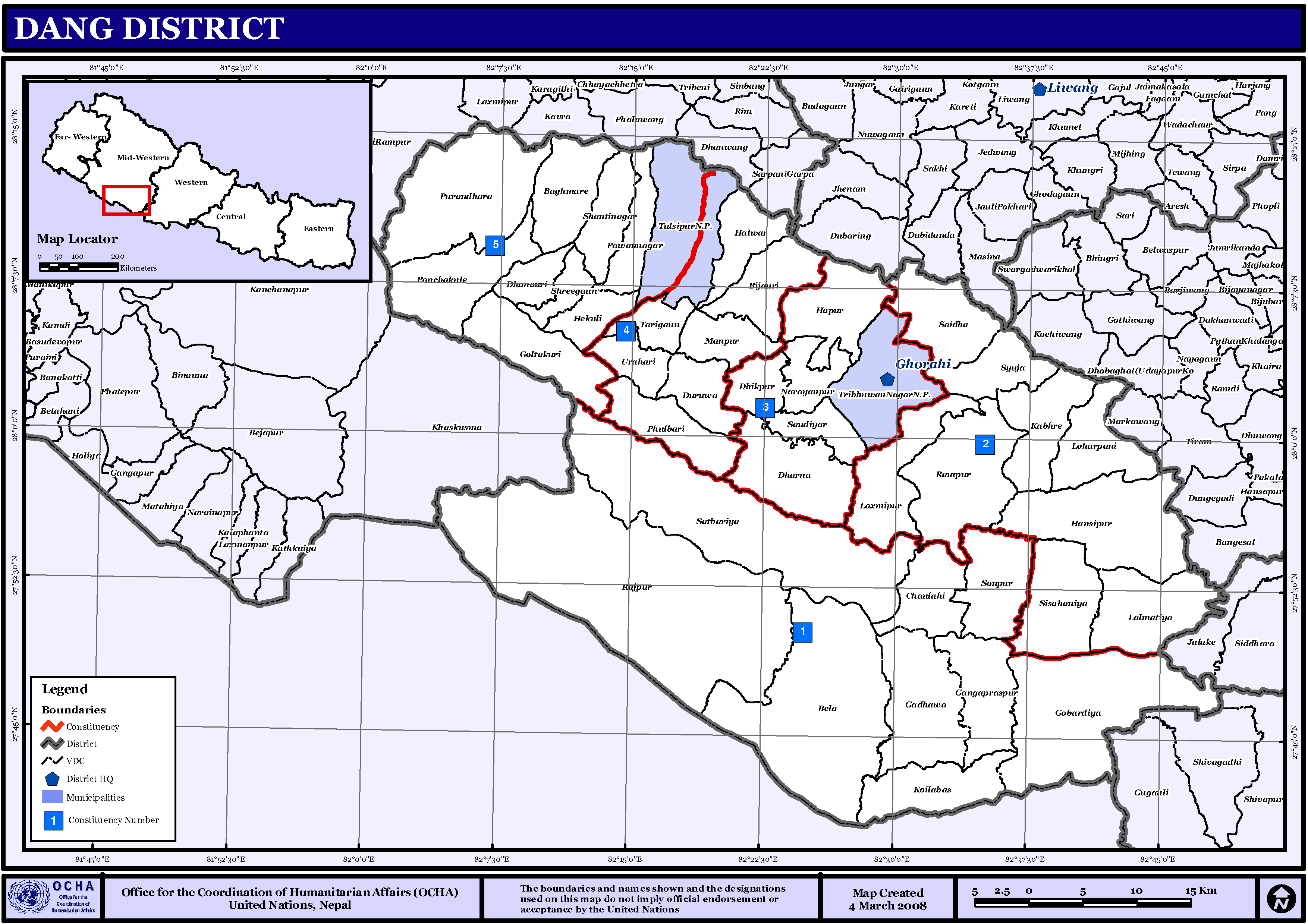 Map displaying Village Development Committees in Dang District, Nepal